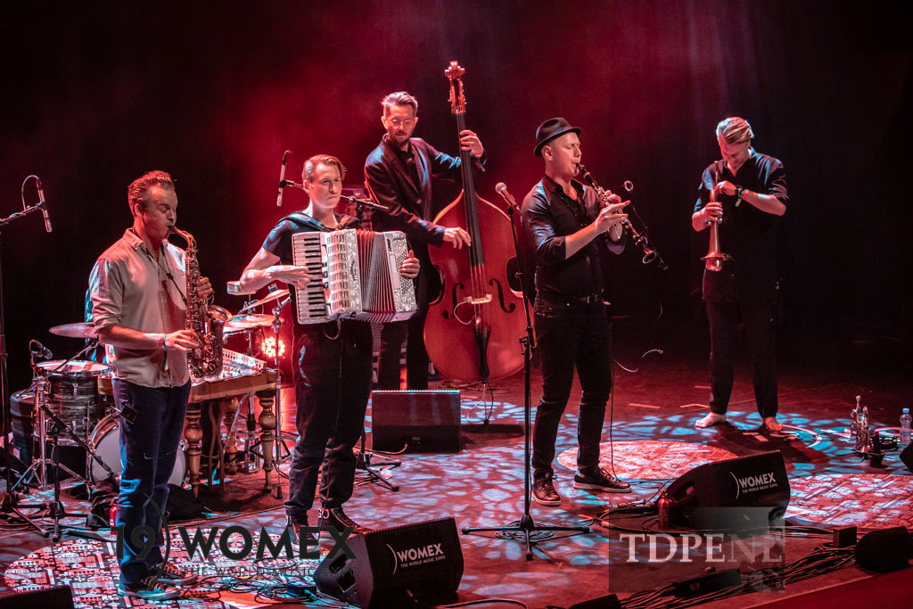 mames_babegenush_artist_womex19_by_eric_van_nieuwland